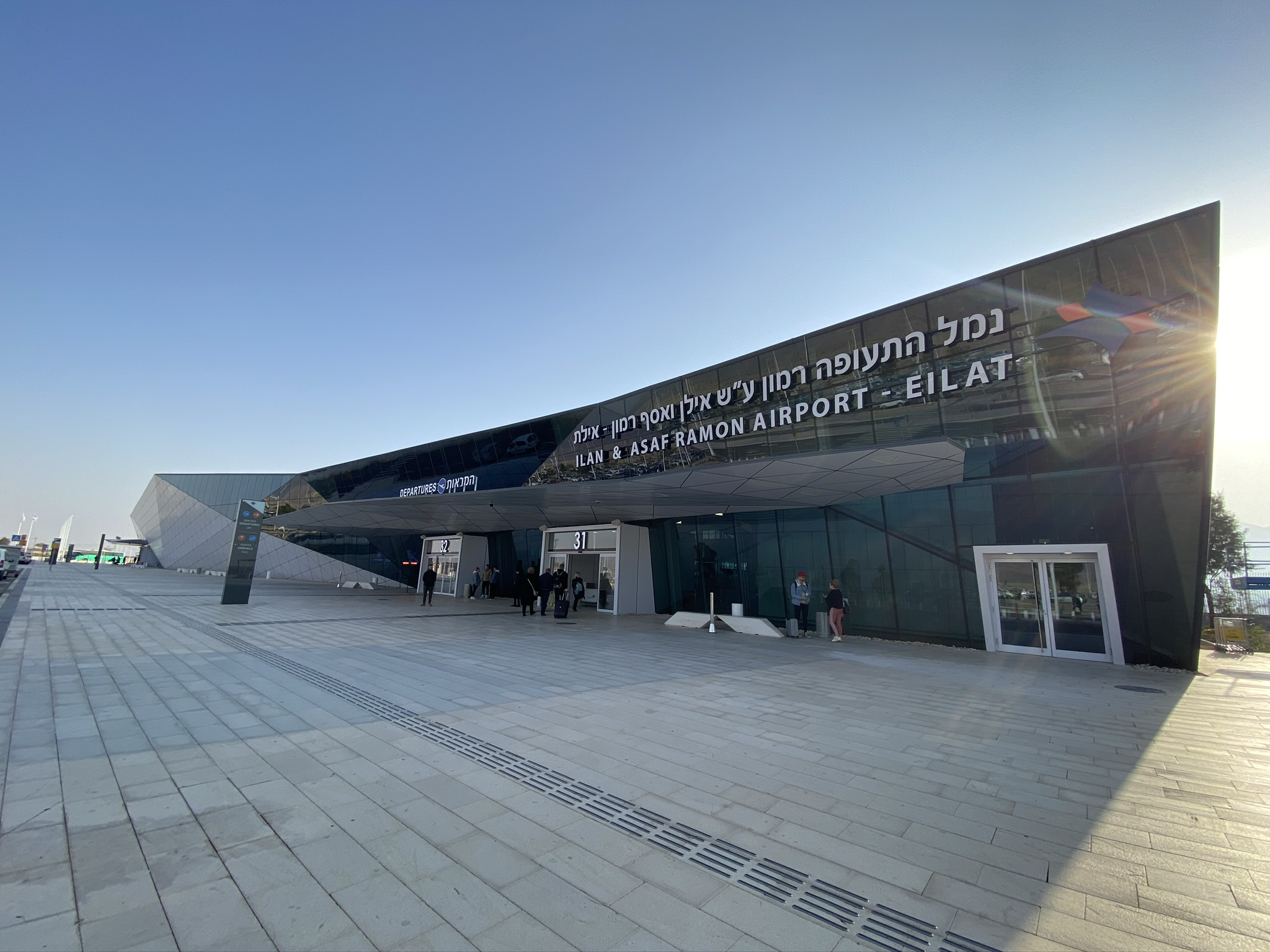 Terminal building of Ramon Airport, Eilat, Israel